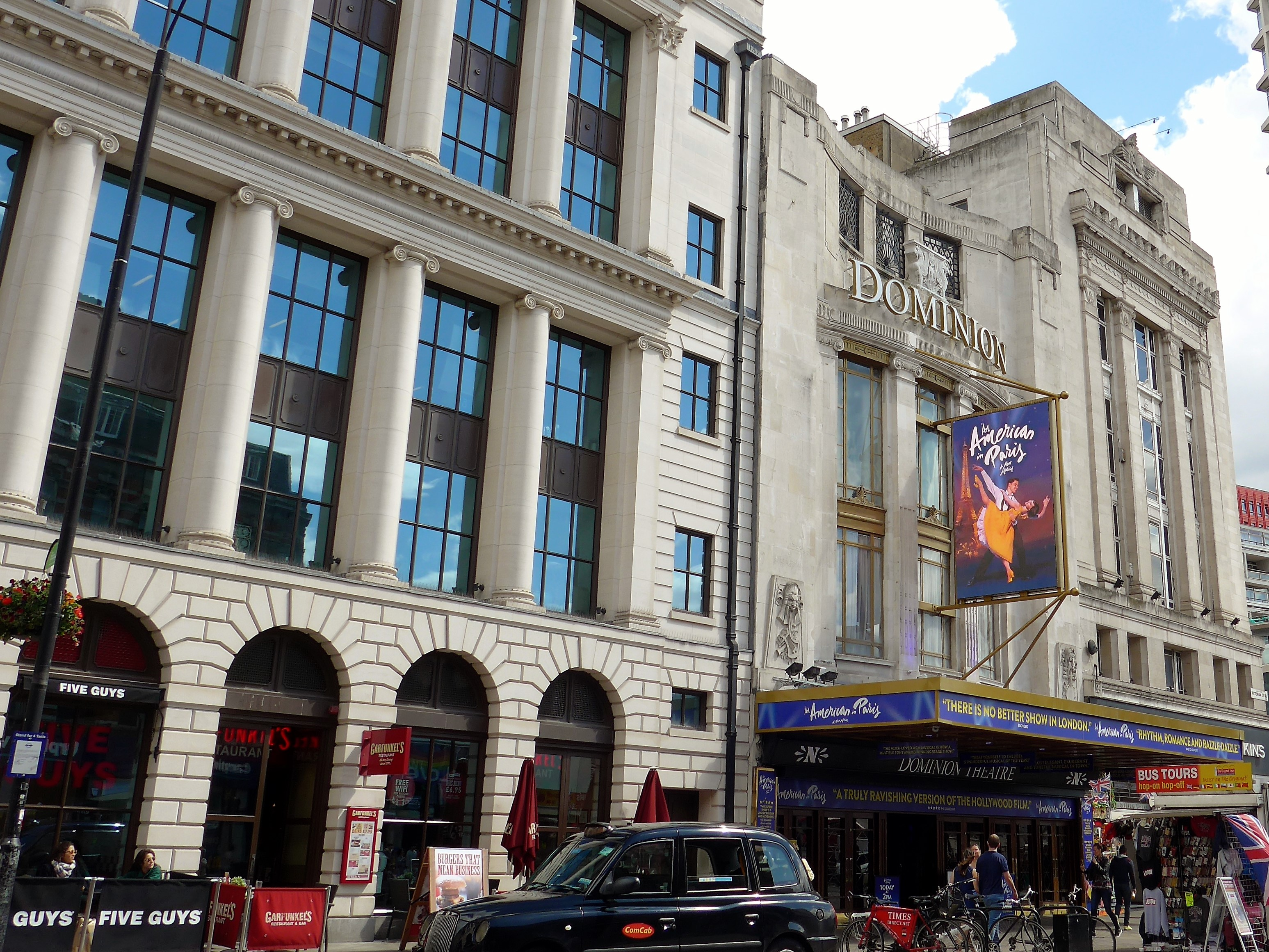 Dominion Theatre with its new double-sided LED screen